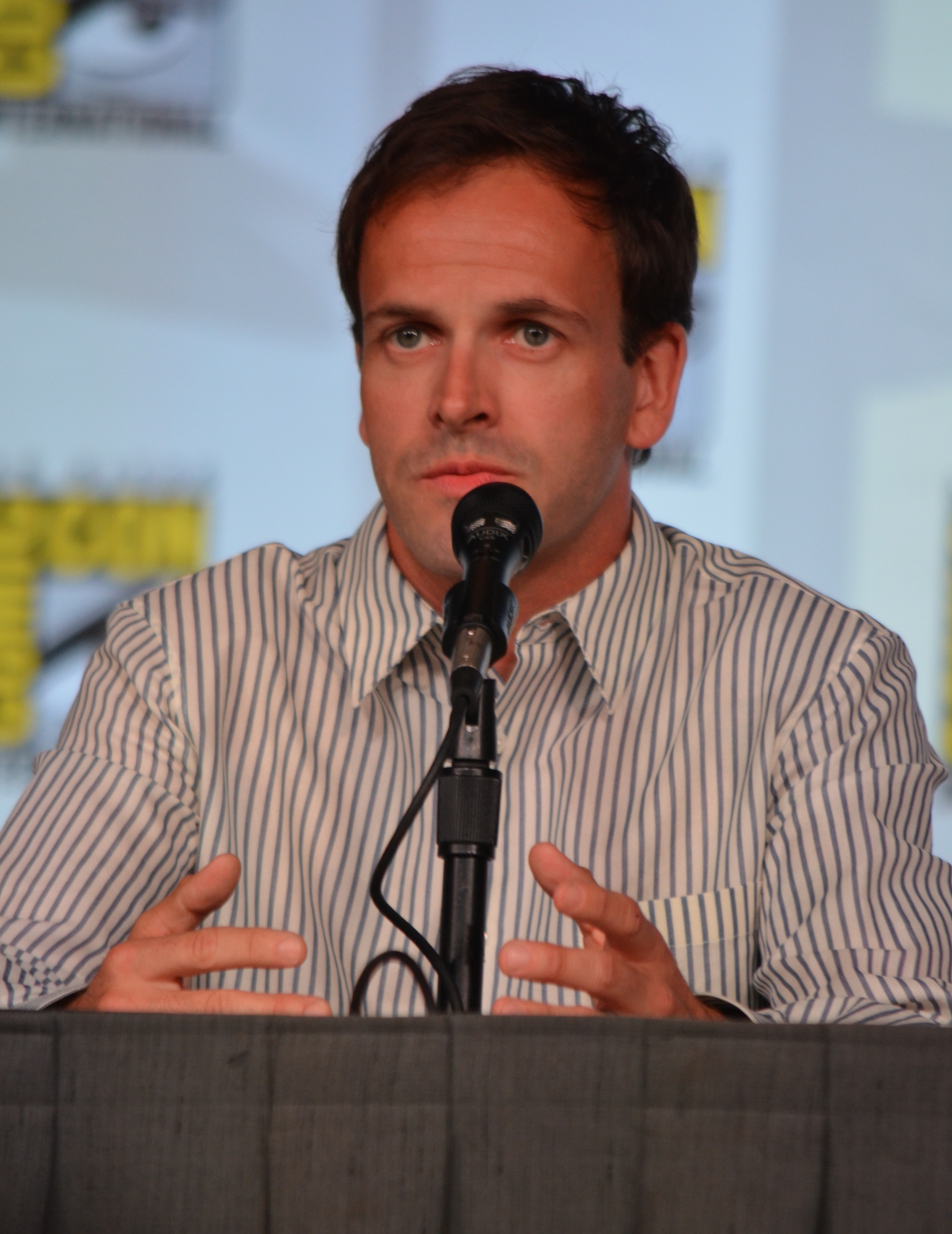 Jonny Lee Miller at 2012 Comic-Con